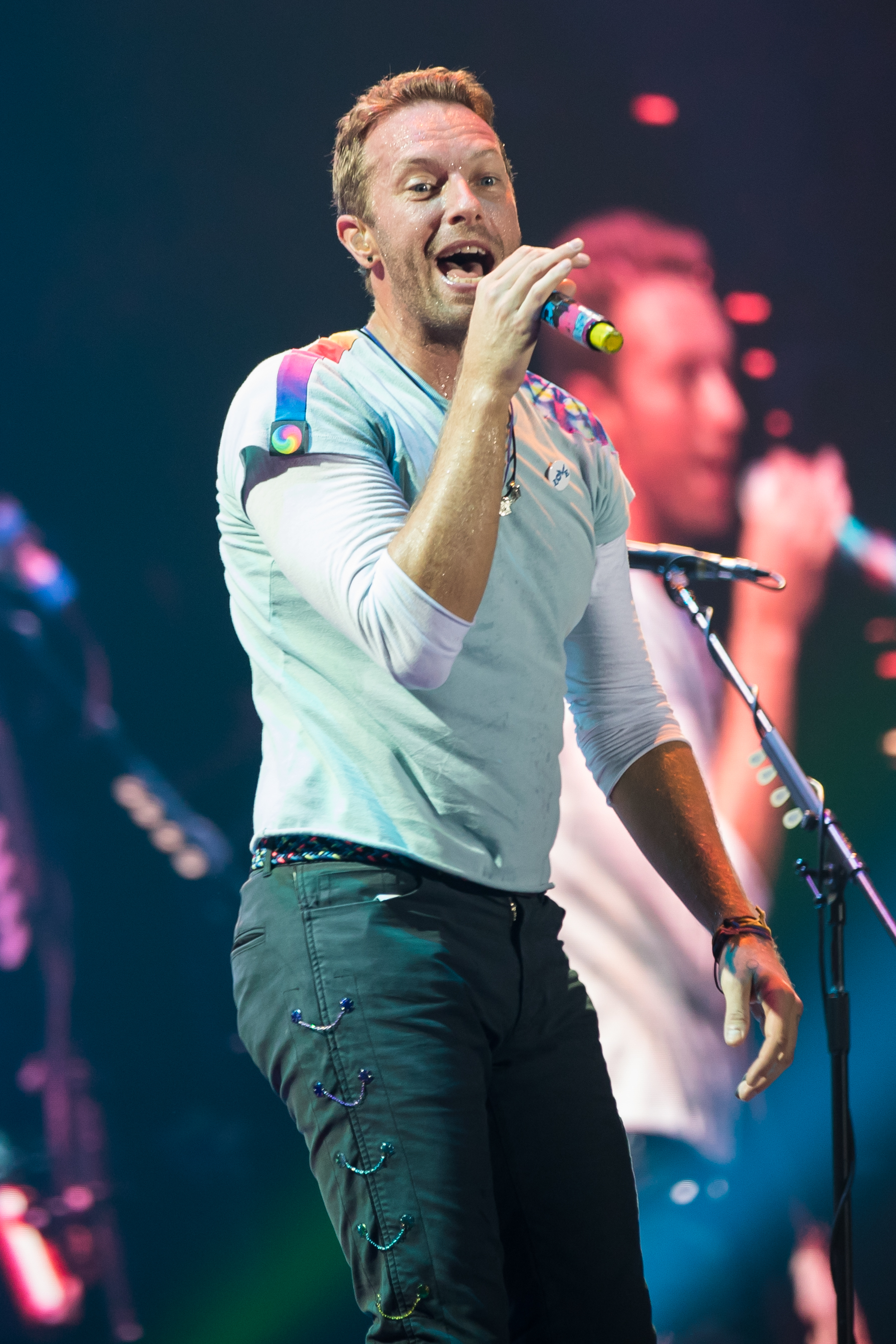 Chris Martin from Coldplay during Global Citizen Festival 2017 at Barclaycard Arena in Hamburg, Germany